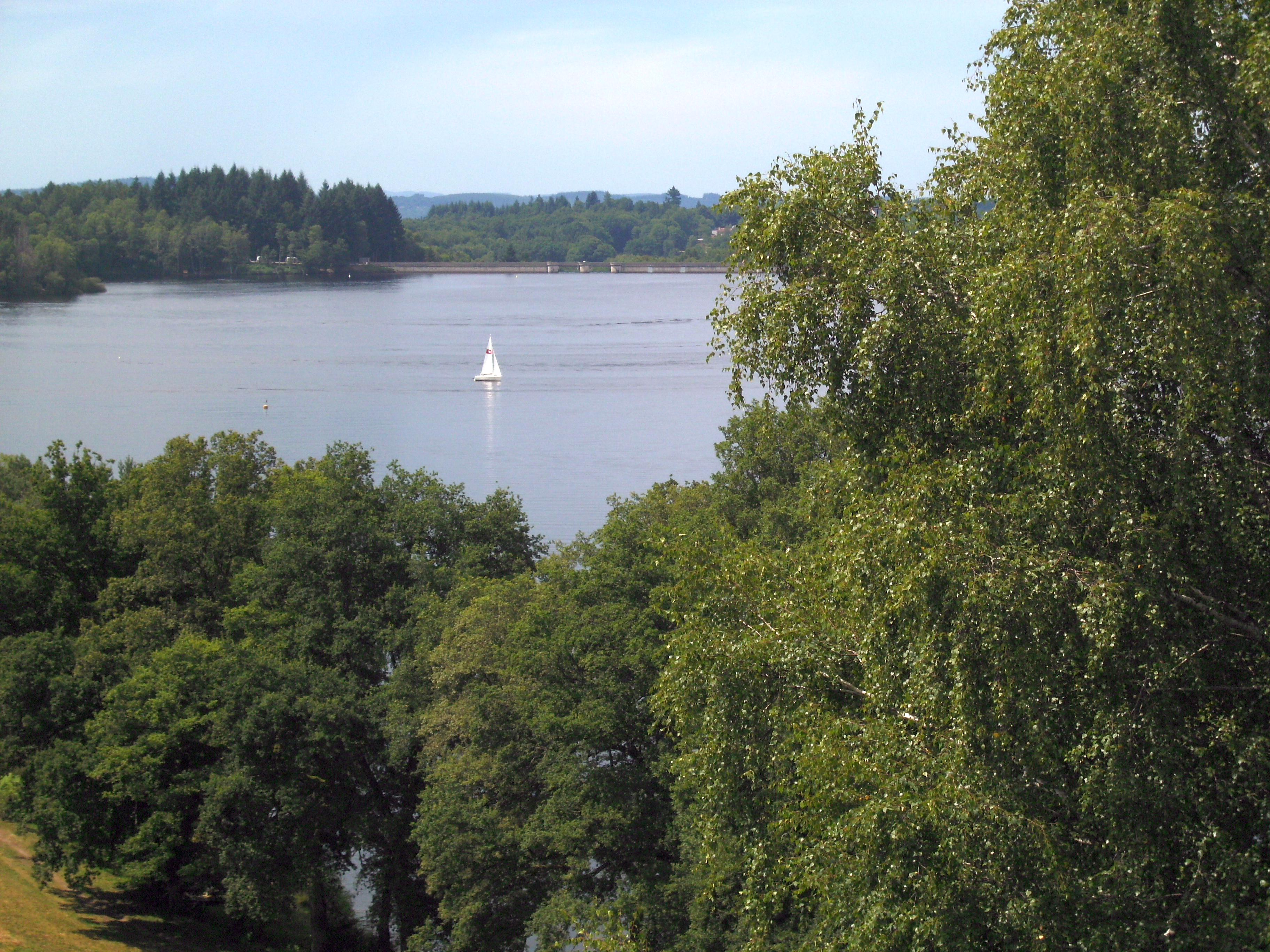 Barrage and sailing boat on Lac de Vassiviere, Limousin, France